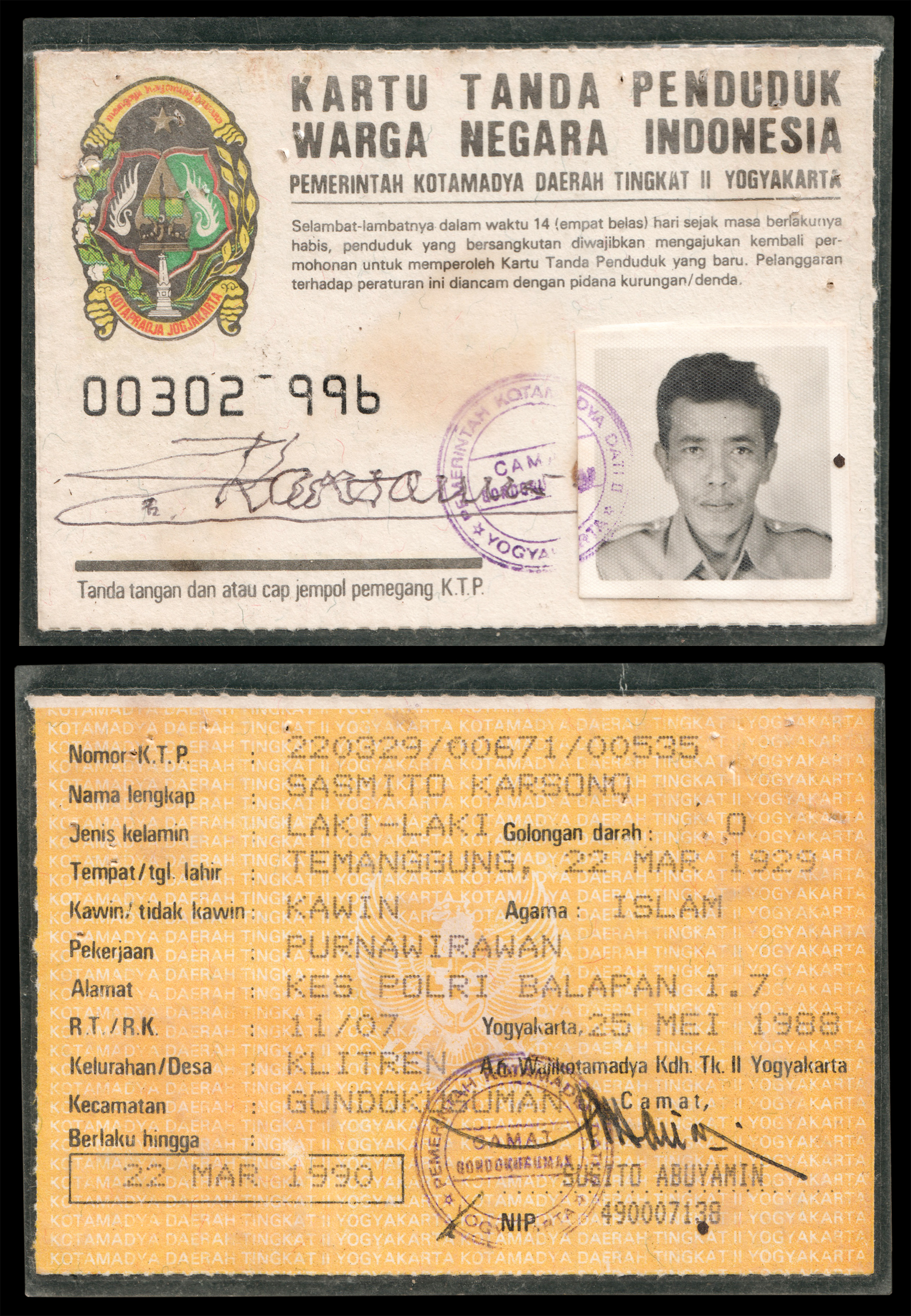 KTP Identity Card, Sasmito Karsono, 1990 obverse + reverse